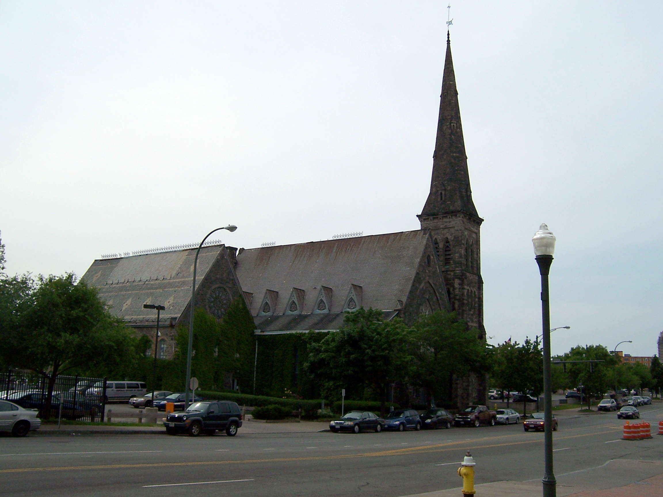 The third church building of the First Presbyterian Church of Rochester, New York. It currently houses the Central Church of Christ. It is listed on the National Register of Historic Places.